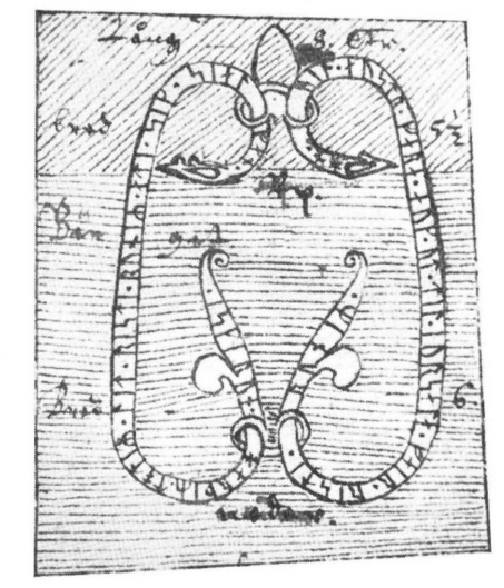 Rune inscription U605 from Ryssgraven, Stäket, Stockholms-Näs as depicted by Mårten Aschaneus från Aske (1575-1641). Made on a cliff it was hidden during the road building in 17th century and was never found again.